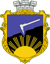 Coat of Arms Kirovsk Luhansk Oblast Ukraine